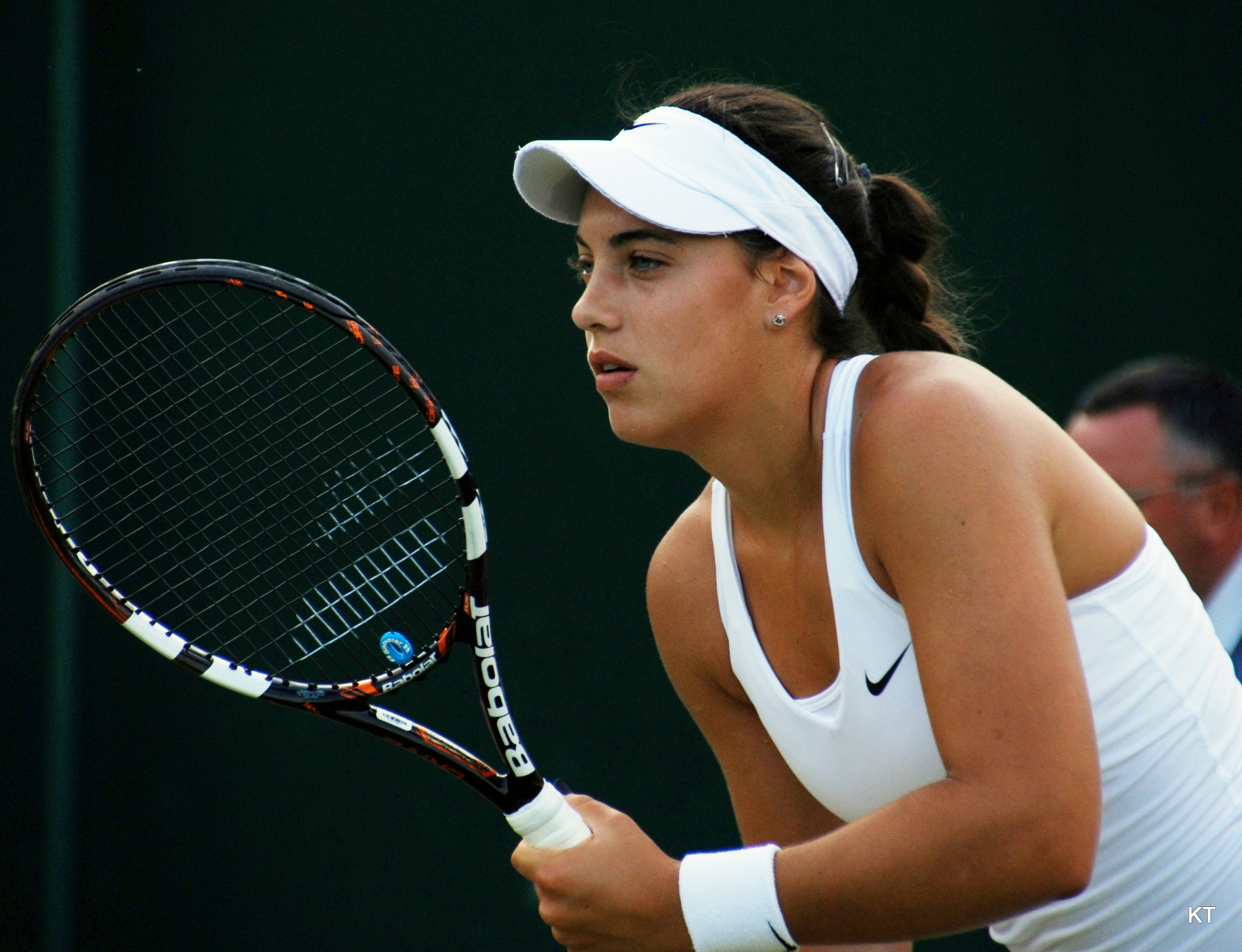 Ana won the Australian Open and US Open junior titles in 2013 when aged 15. In 2014 she reached Wimbledon's main draw by winning three rounds of qualifying, then won two further matches (d Marina Erakovic & Yanina Wickmayer) before going out to Caroline Wozniacki in R3. Ana Konjuh d Yanina Wickmayer 3-6, 6-2, 6-2. Day 3 of Wimbledon 2014.